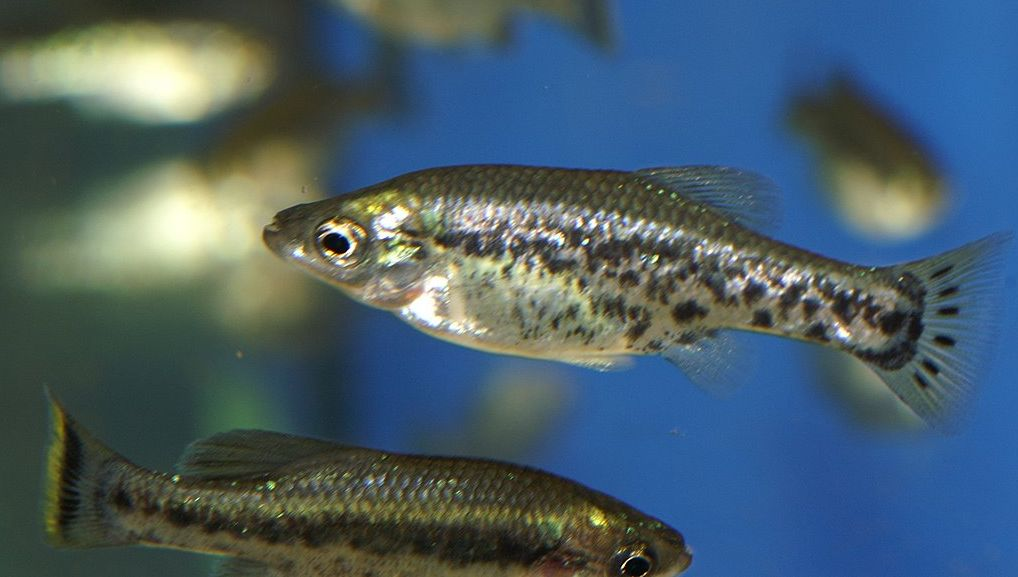 Ameca splendens